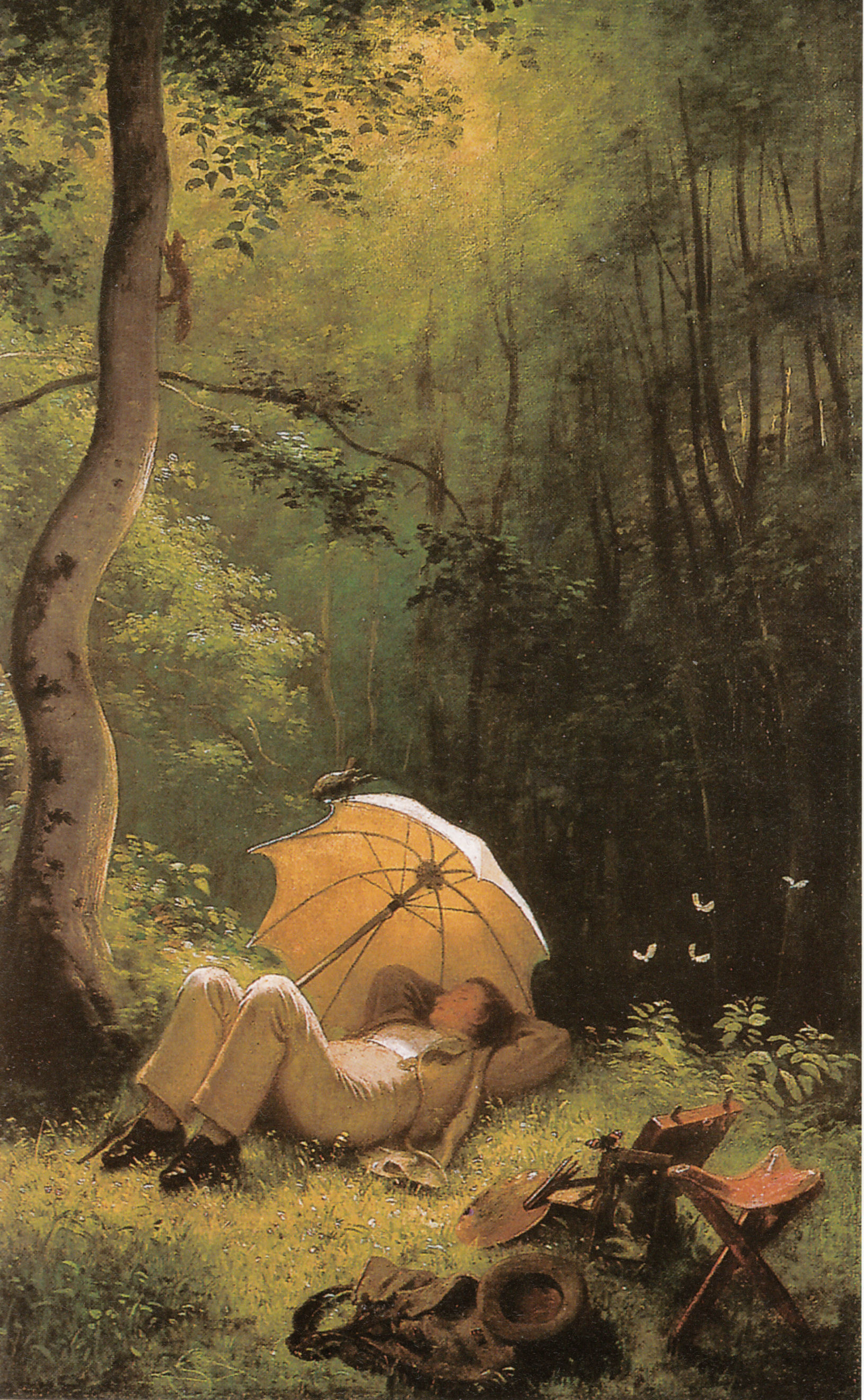 Der Maler auf einer Waldlichtung, unter einem Schirm liegend. Ca. 1850. Oil on canvas. 49.5 × 30.2 cm.